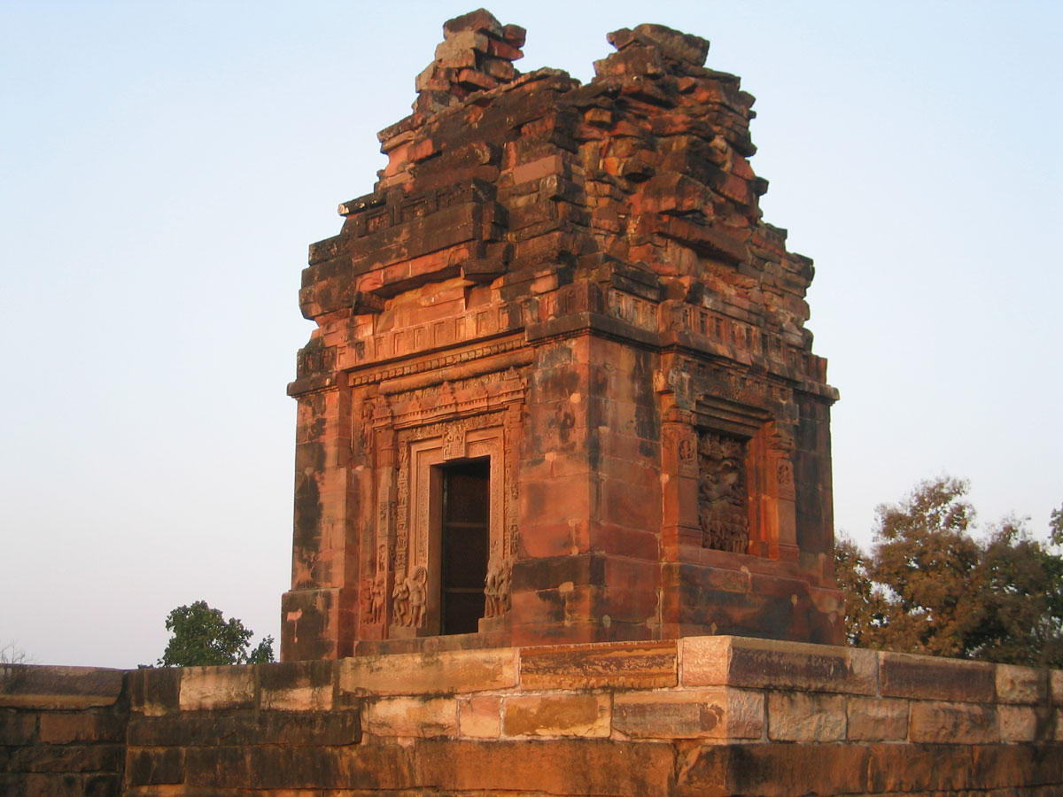 The 6th century late Gupta period Dashavatara temple Deogarh, Uttar Pradesh at sunset